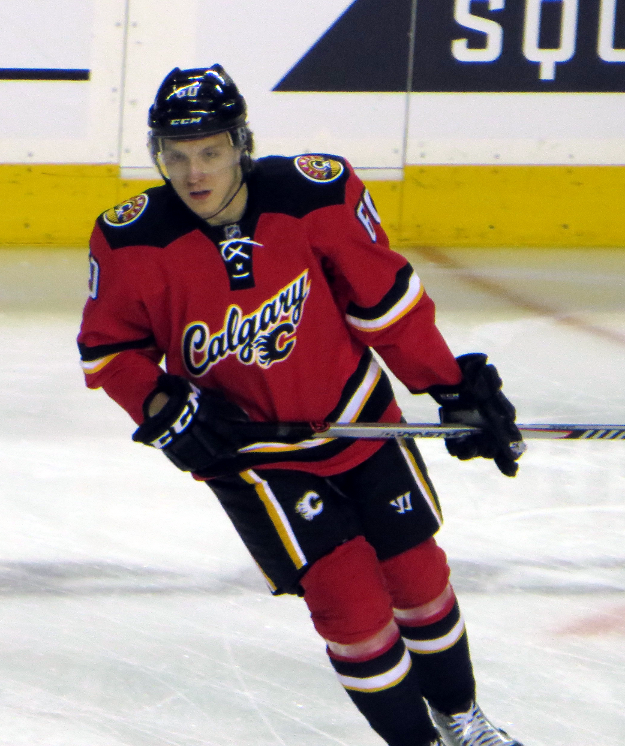 Calgary Flames forward Markus Granlund prior to a National Hockey League game against the Ottawa Senators.